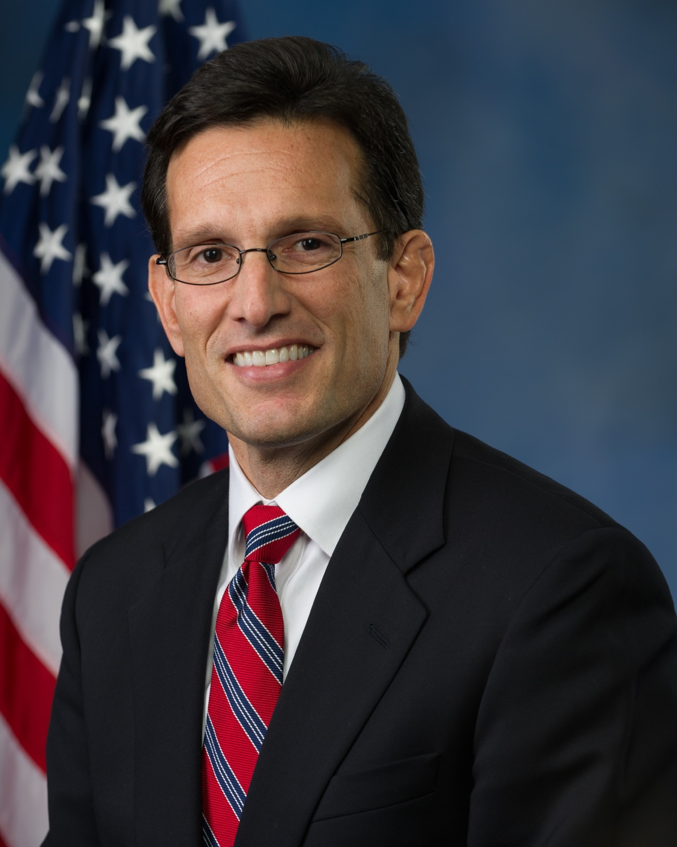 Eric Cantor, member of the United States House of Representatives from Virginia's 7th congressional district since 2001. He has held the position of House Majority Leader since 2011.